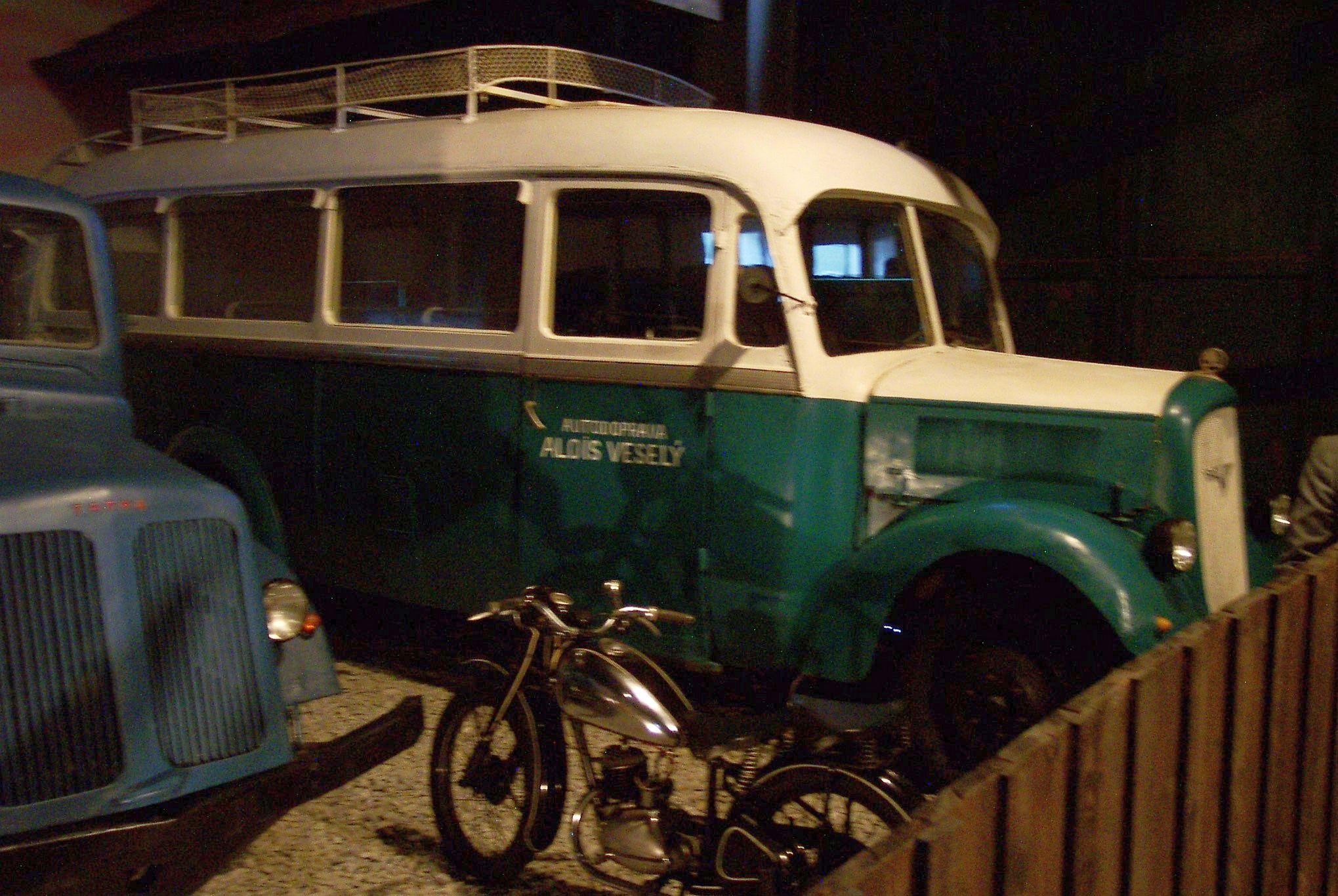 The Škoda 256 B bus as the stable part of the exhibition in Lešany museum